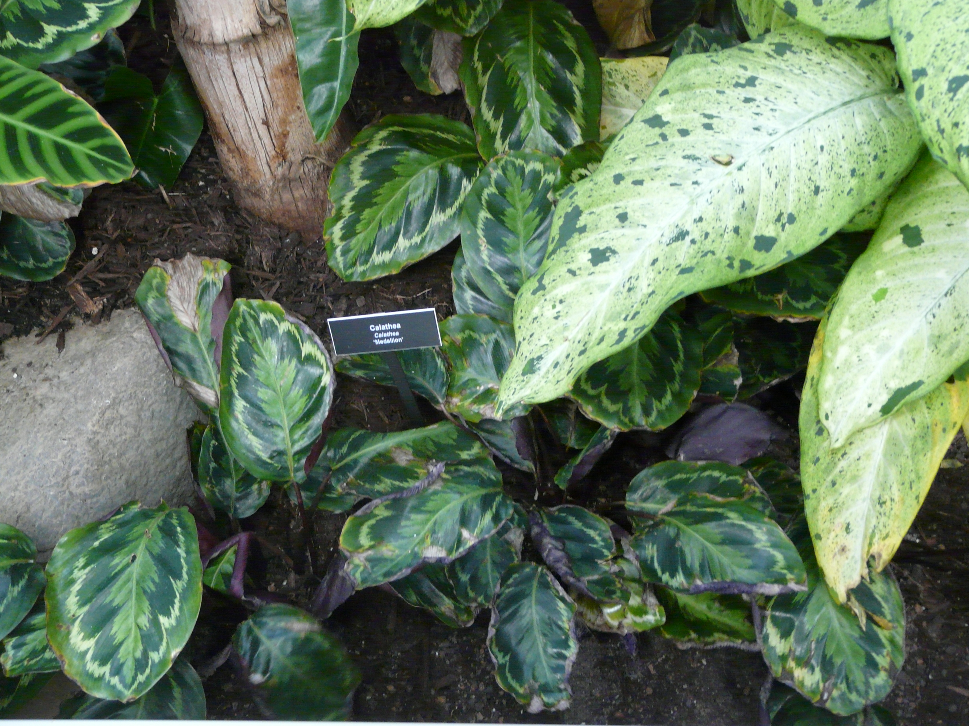 Phipps Conservatory